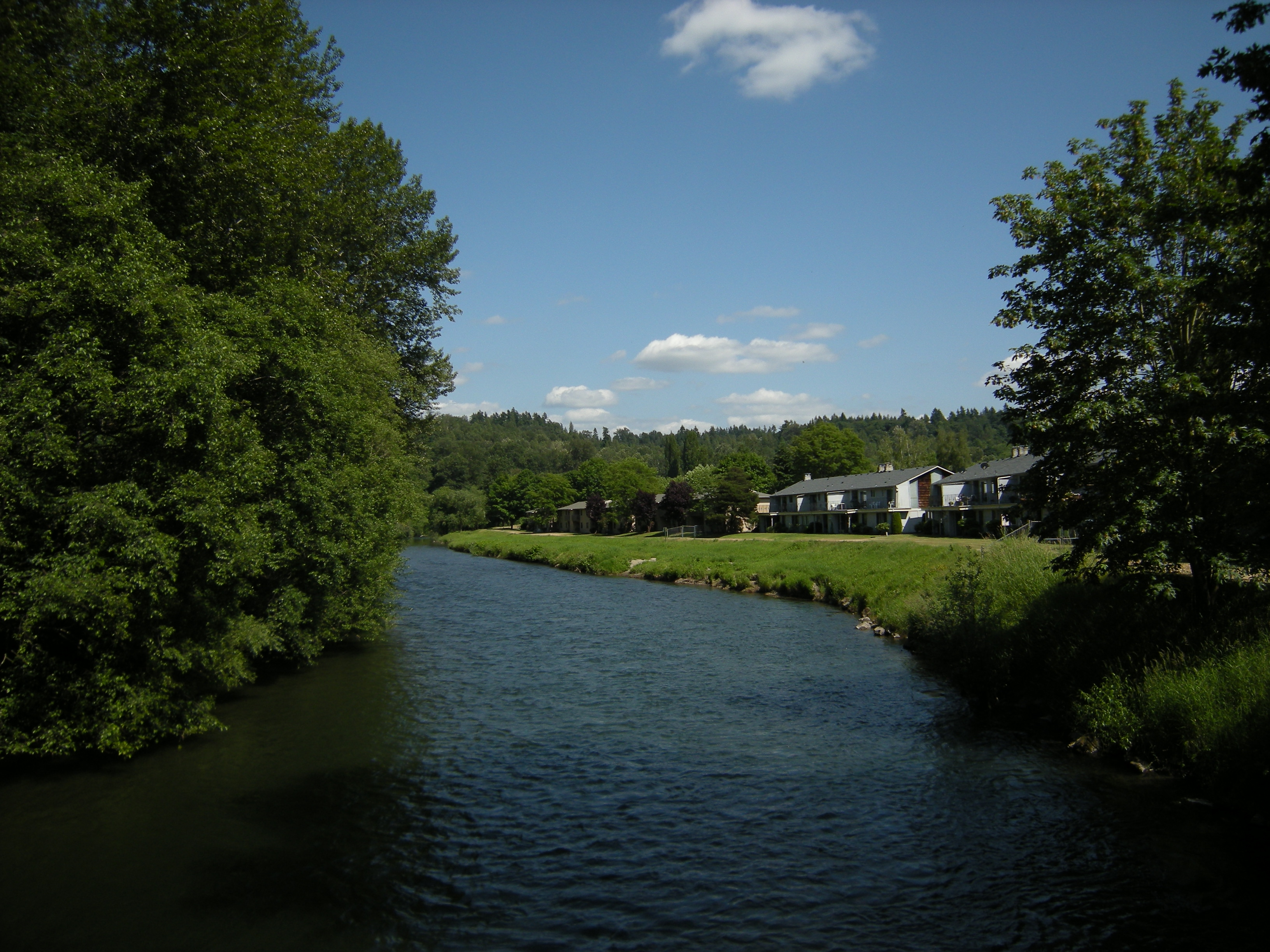 Looking upriver from pedestrian suspension bridge across the Green River, Isaac Evans Park, Auburn, Washington.